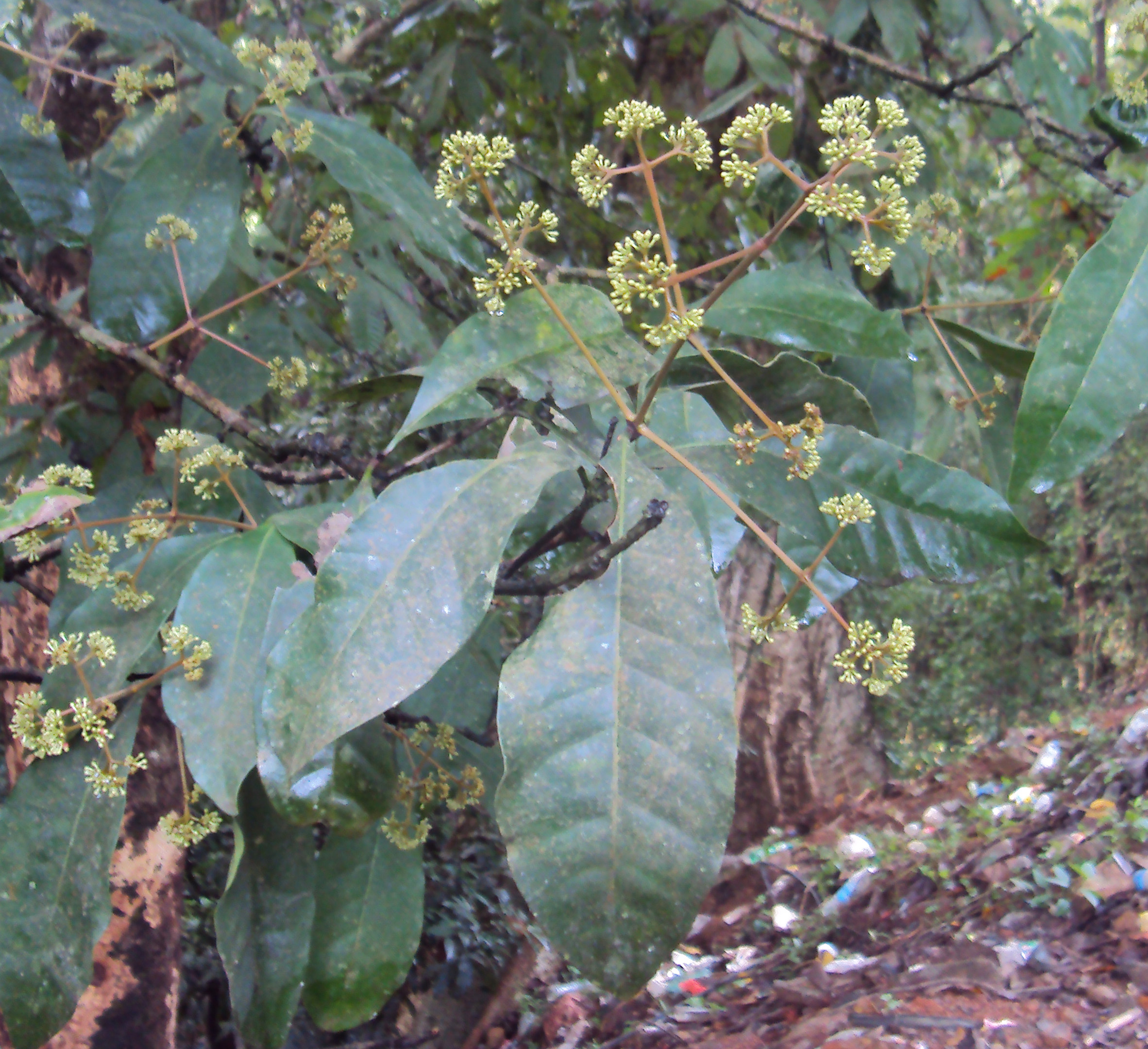 ixora brachiata